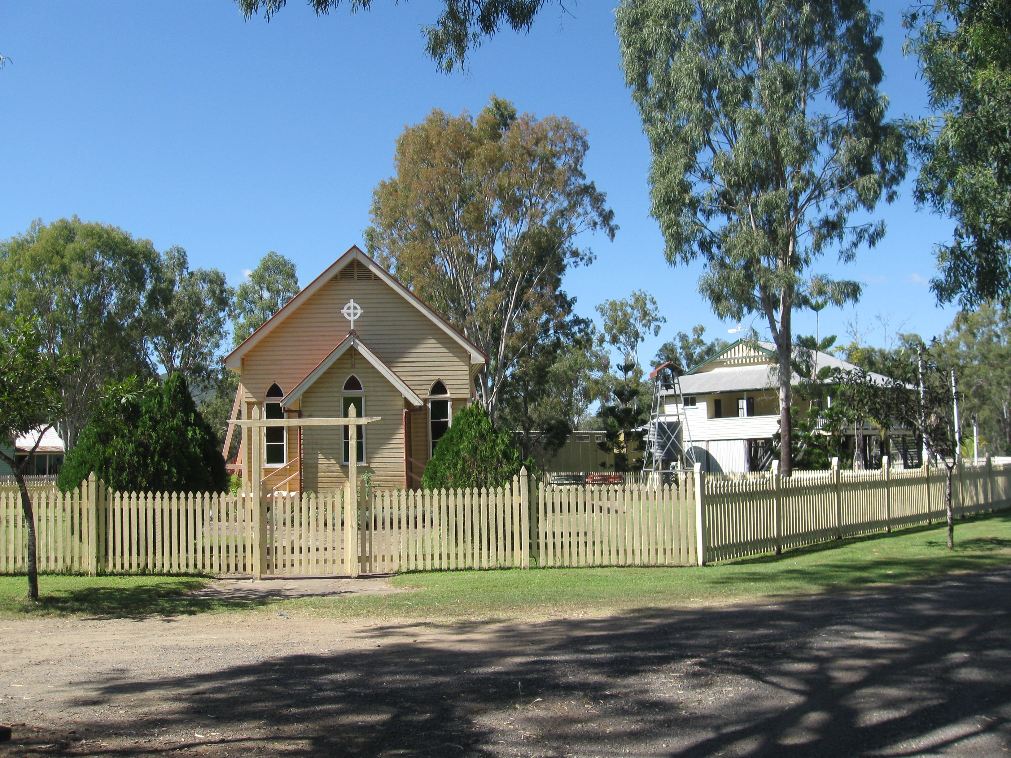 Image of church and schoolhouse at historic village in Rockhampton, Queensland. Exact time and location of image in EXIF header. Image taken by uploader and released into the public domain.